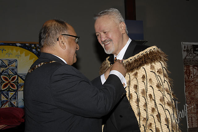 Joe Hawke receiving the Insignia of a Member of the New Zealand Order of Merit